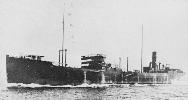 Japanese Oiler "Sata"(Shiretoko-class) in trial run at Tokyo Bay.